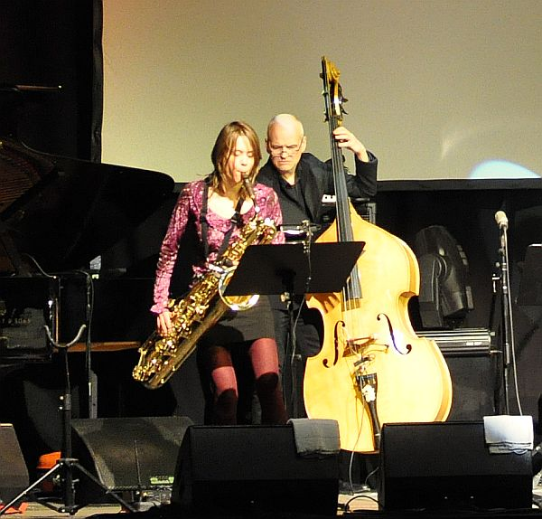 Celine Bonacina and Lars Daniellson during act Jubilee Concert in Muffathalle Munich Unknown